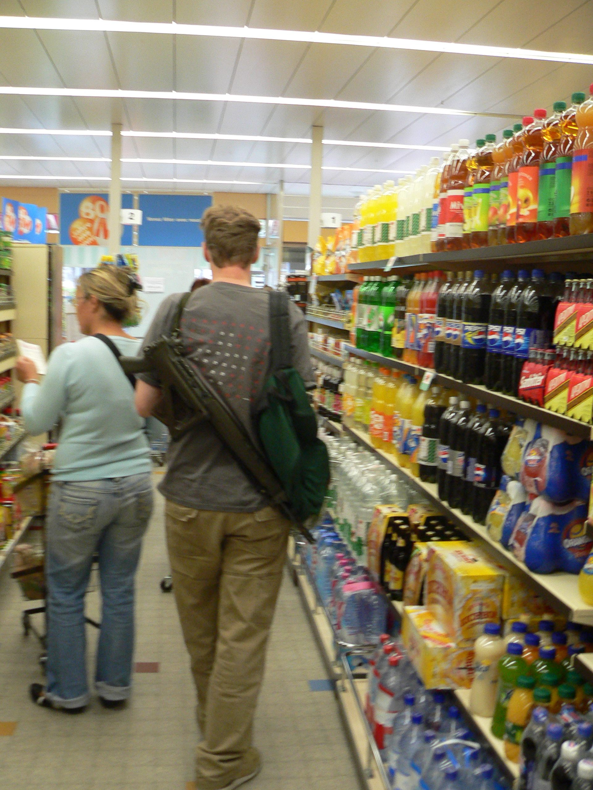 Scene from Swiss daily life: a citizen coming back from shooting practice, wearing a regulation assault rifle (without magazine), and going shopping.